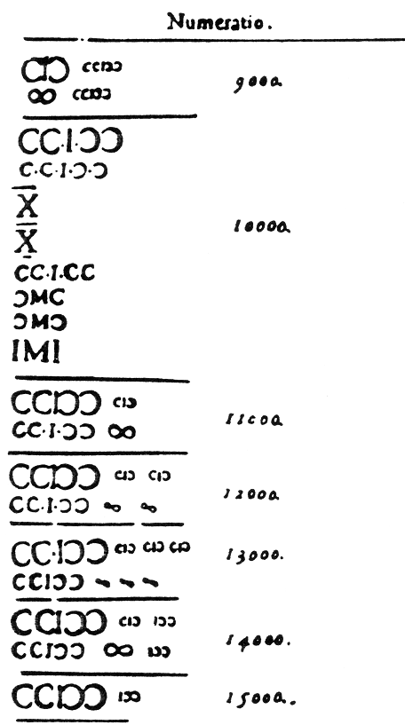 Roman Numerals mysticae numerorum by Petrus Bungus (Pietro Bongo, Petri Bunqi)